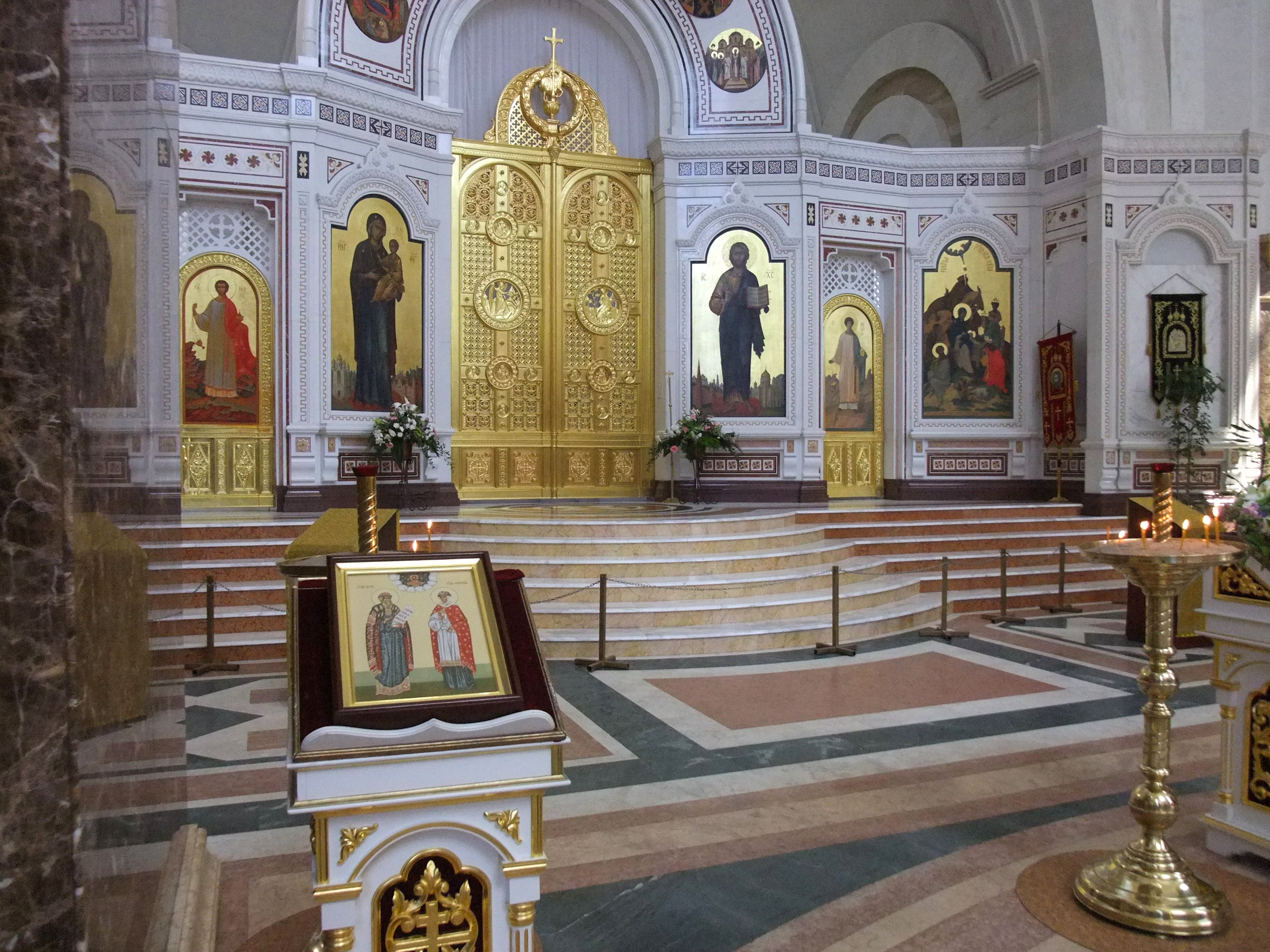 Inside the Cathedral of Christ the Saviour in Kaliningrad, Russia